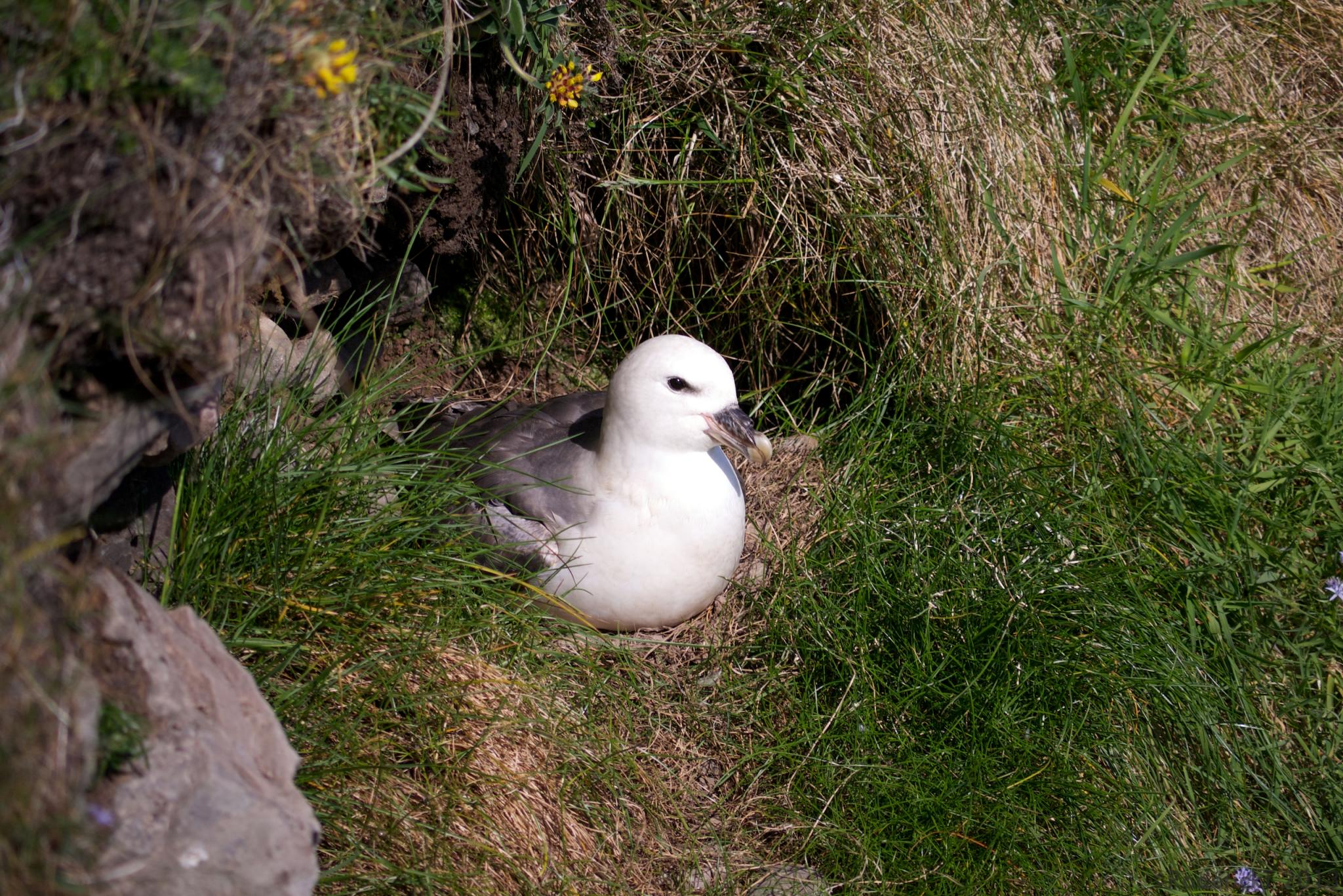 A Northern Fulmar on its nest at Sandwick, Shetland, Scotland.